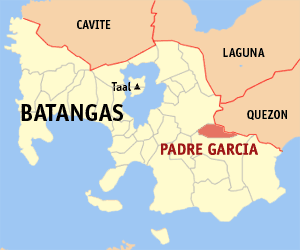 Map of Batangas showing the location of Padre Garcia